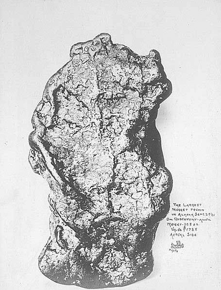 Largest gold nuggest found in Anvil Creek, Alaska, ca. 1901 Photographer: Dobbs, Beverly Bennett Subjects (LCTGM): Gold Digital Collection: Alaska, Western Canada and United States Collection Item Number: AWC3278 Persistent URL: Visit Special Collections page for information on ordering a copy. University of Washington Libraries. Digital Collections